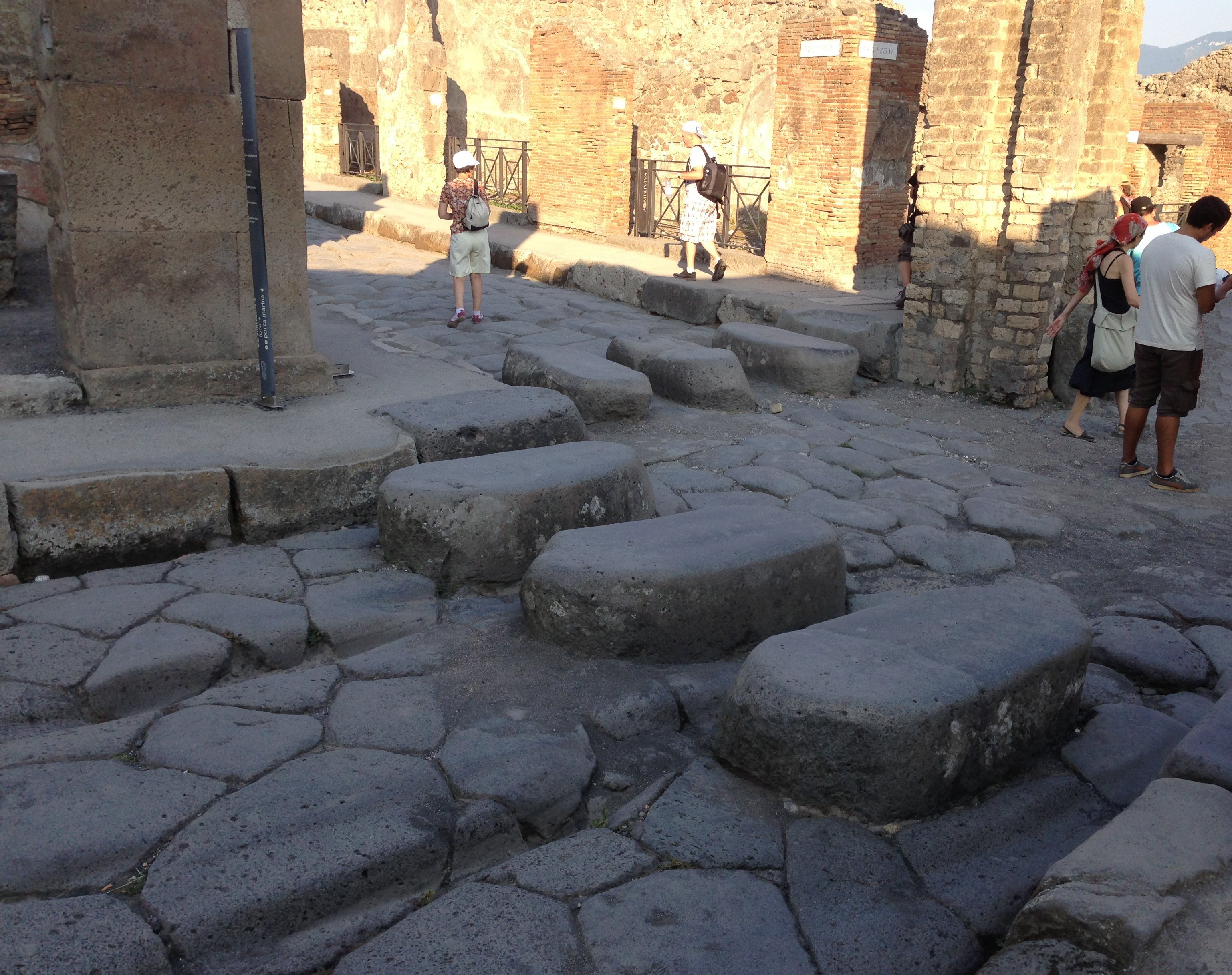 Pedestrian crossings in Pompei